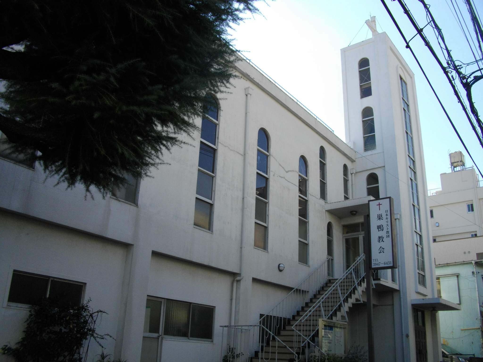 Sugamo Church